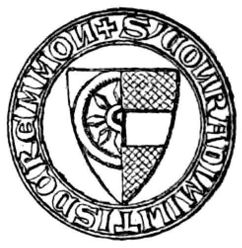 from Table 58 of collected seals from the medieval Duchy of Mecklenburg.